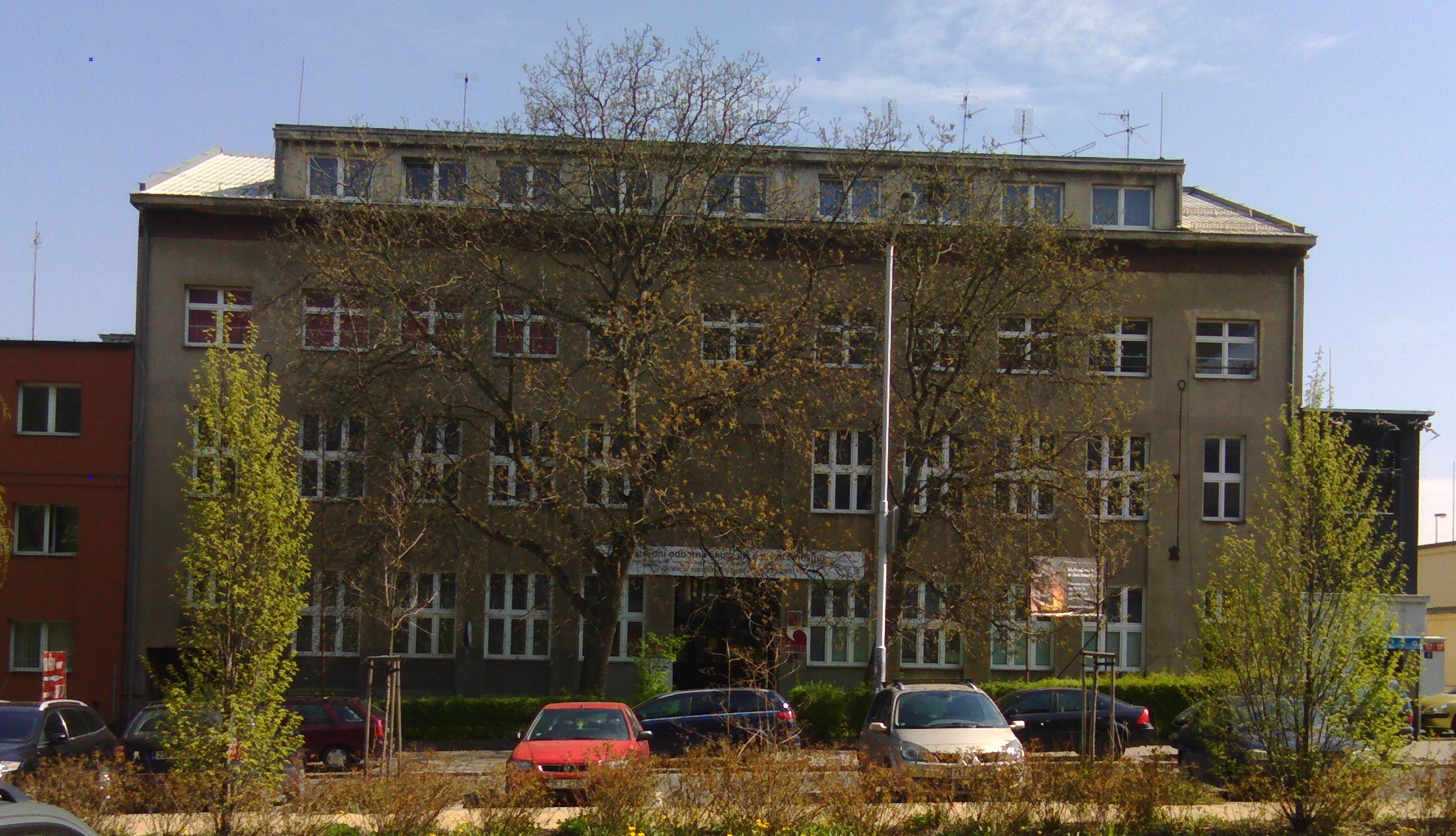 The building of High School SOŠ uměleckořemeslná in Prague.